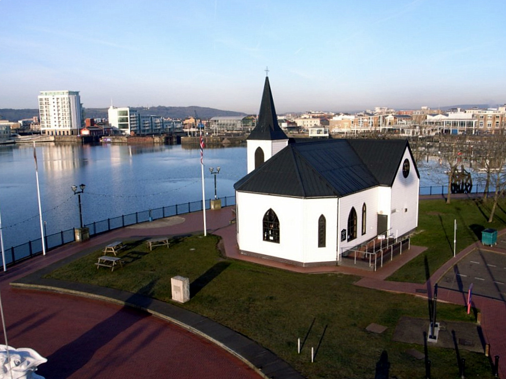 Norwegian Church, Cardiff taken from helium balloon